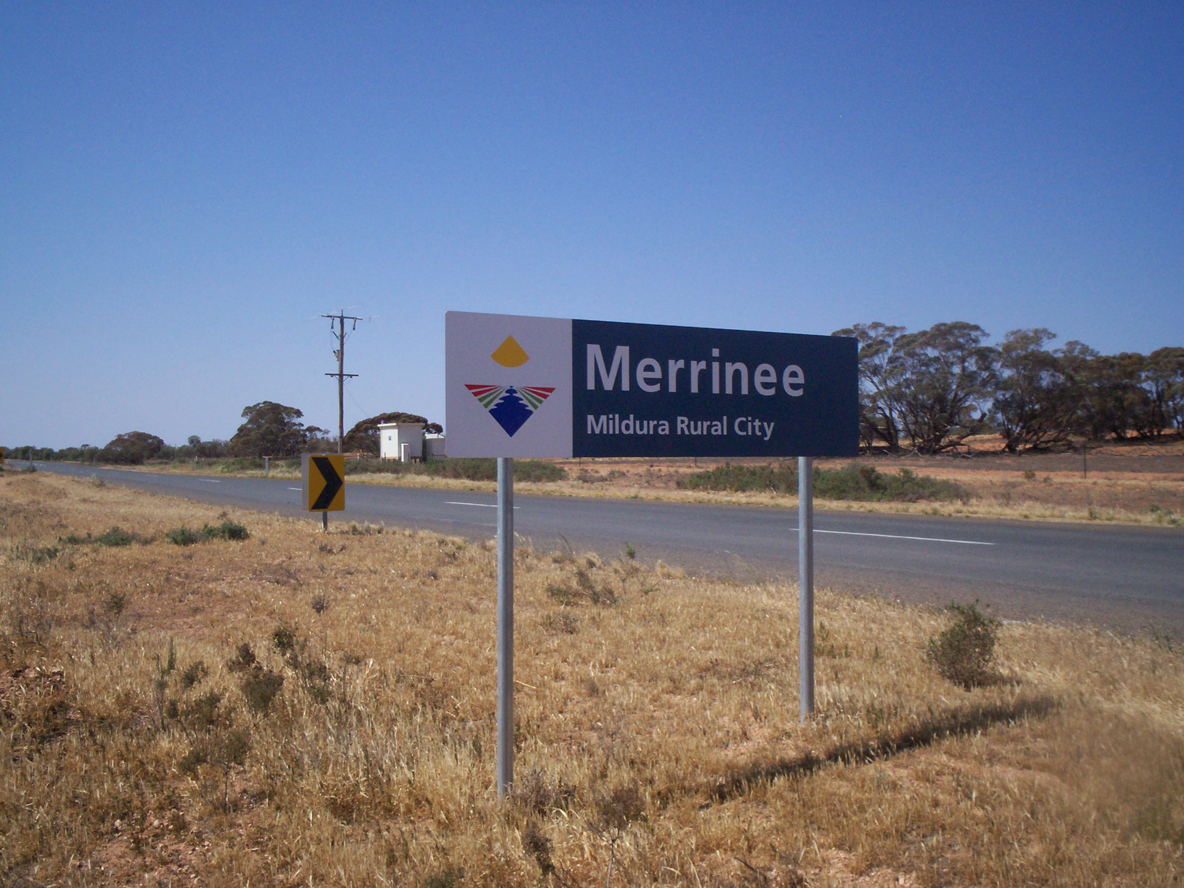 Merrinee, Victoria, Photograph taken by myself, September 30, 2007.